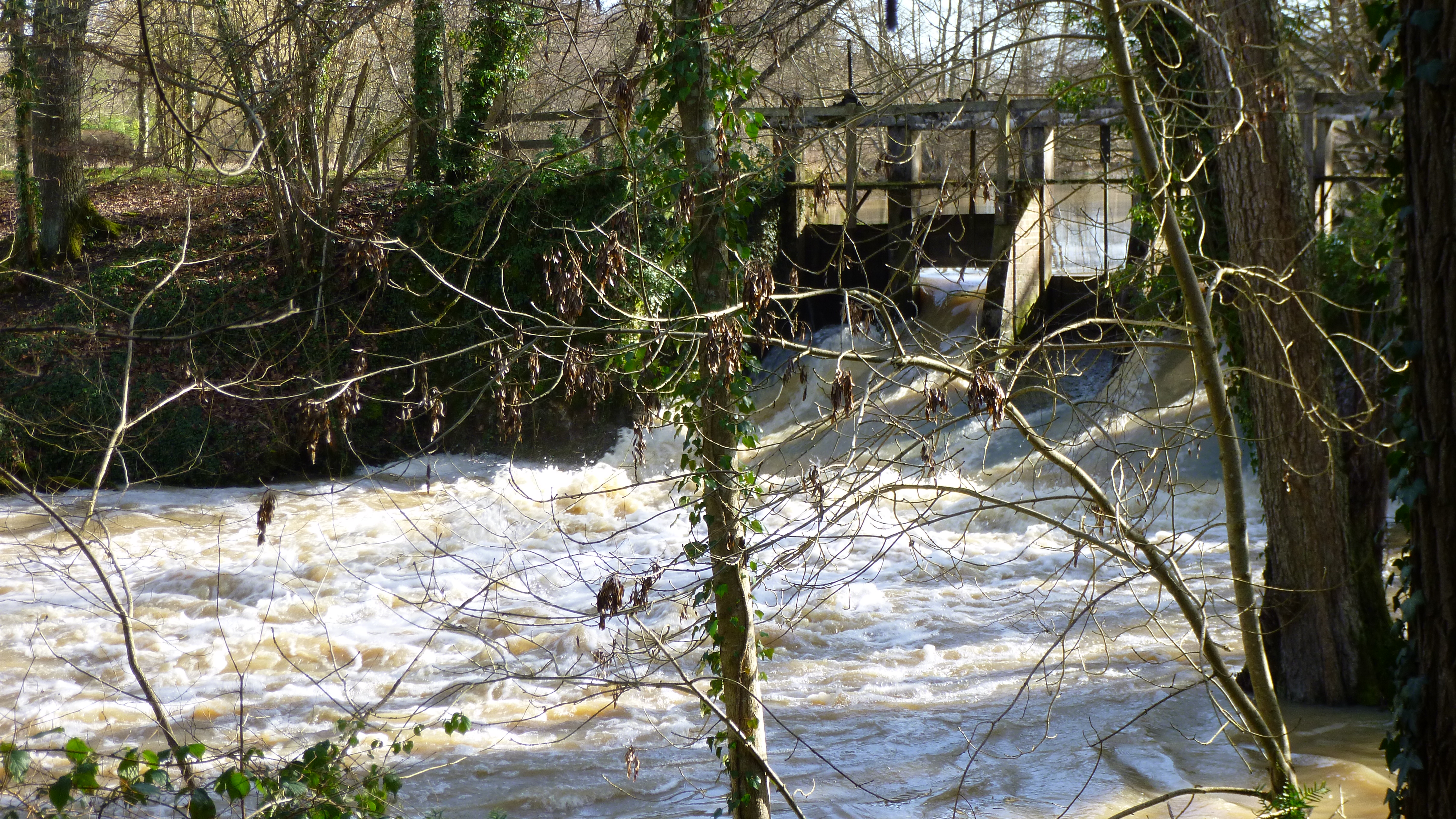 Tannerre-en-Puisaye, Yonne, Burgundy, France. The Branlin river at the moulin de la Forge, near the D7 road towards Champignelles.